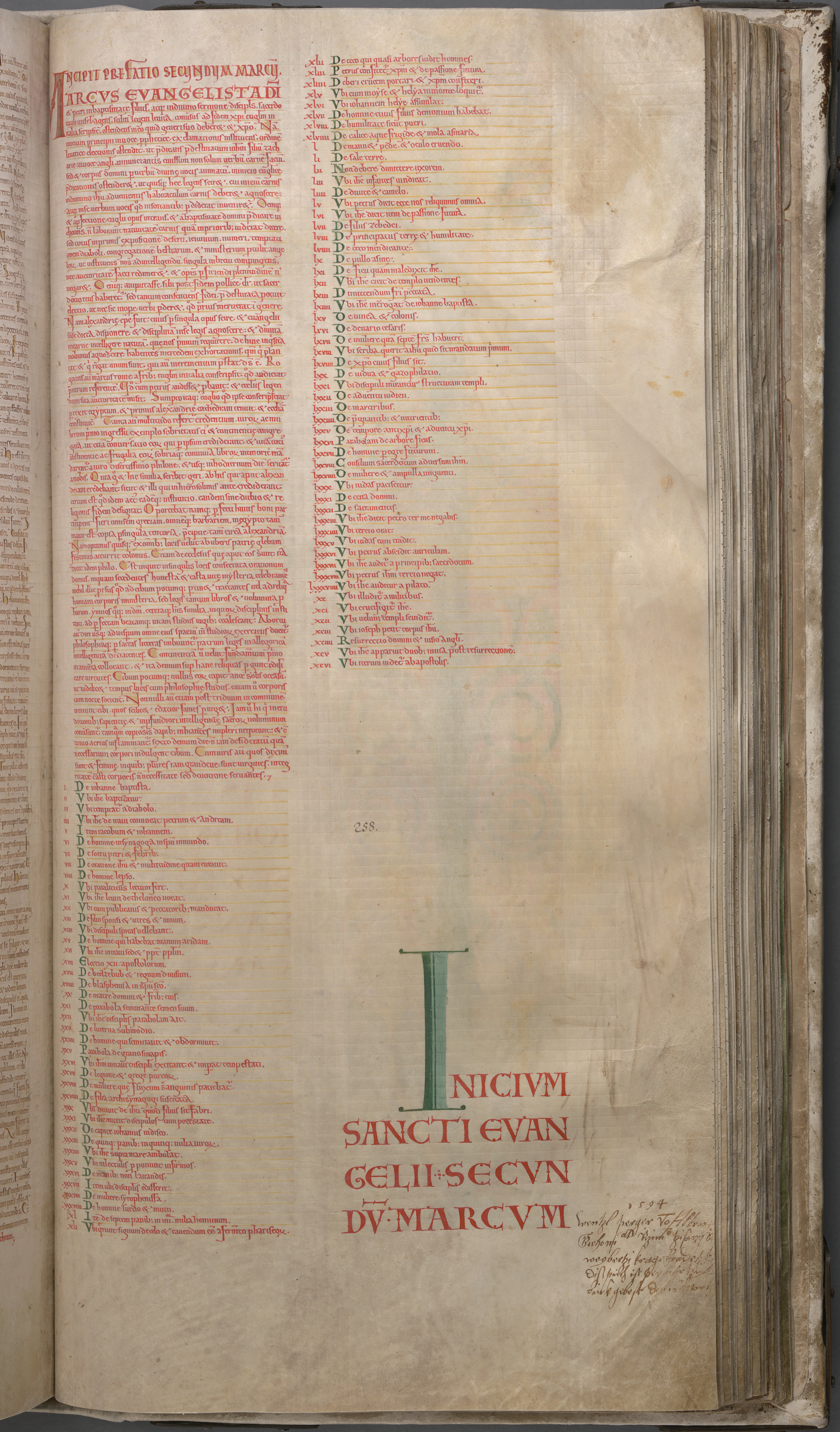 Giant Book) is the largest extant medieval manuscript in the world. It is also known as the Devil's Bible because of a large illustration of the devil on the inside and the legend surrounding its creation. It is thought to have been created in the early 13th century in the Benedictine monastery of Podlažice in Bohemia (modern Czech Republic). It contains the Vulgate Bible as well as many historical documents all written in Latin. During the Thirty Years' War in 1648, the entire collection was taken by the Swedish army as plunder, and now it is preserved at the National Library of Sweden in Stockholm, though it is not normally on display.